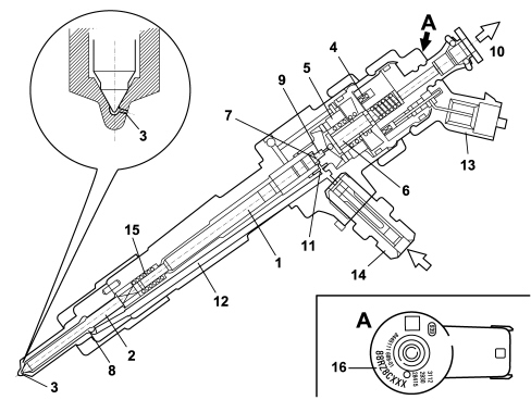 cross section of a bosch Common Rail Injector cross section